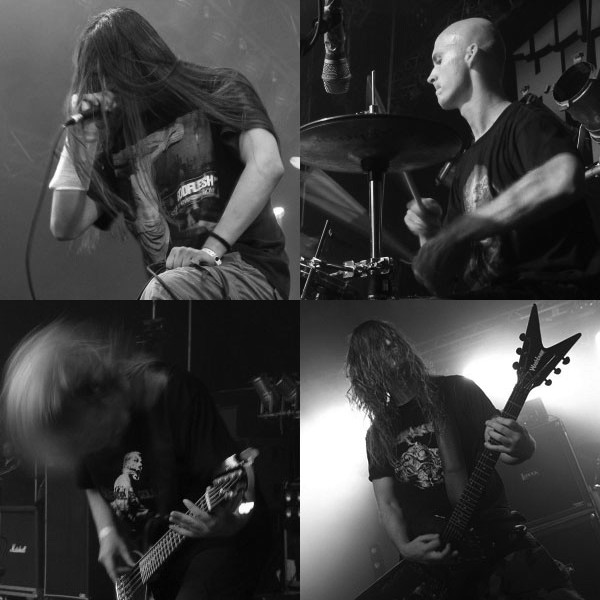 Decapitated, HunterFest, Szczytno, Plaża Miejska, 13.08.2006